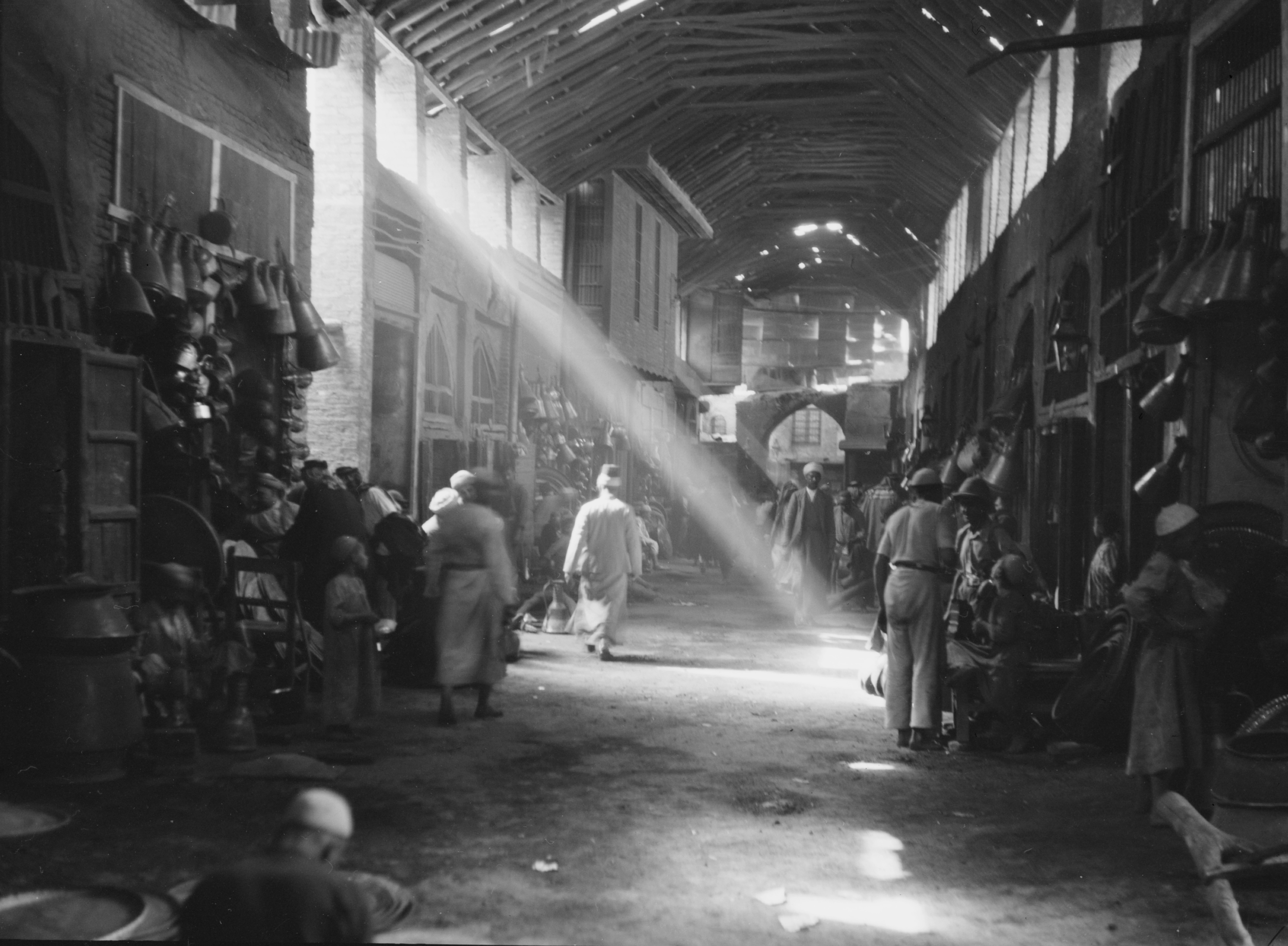 Public Domain. Suggested credit: Library of Congress via pingnews. Additional information from source: TITLE: Iraq, market. CALL NUMBER: LC-M33- 14521[P&P] REPRODUCTION NUMBER: LC-DIG-matpc-13278 (digital file from original photo) No known restrictions on publication. MEDIUM: 1 negative : safety film ; 4 x 5 in. CREATED/PUBLISHED: [1932] CREATOR: American Colony (Jerusalem). Photo Dept., photographer. NOTES: Title from negative sleeve. On negative sleeve: Dups. or faulty. Taken between Sept. 26 and Oct. 12, 1932. Gift; Episcopal Home; 1978. SUBJECTS: Iraq. FORMAT: Safety film negatives. PART OF: G. Eric and Edith Matson Photograph Collection REPOSITORY: Library of Congress Prints and Photographs Division Washington, D.C. 20540 USA DIGITAL ID: (digital file from original photo) matpc 13278 CARD #: mpc2005007872/PP